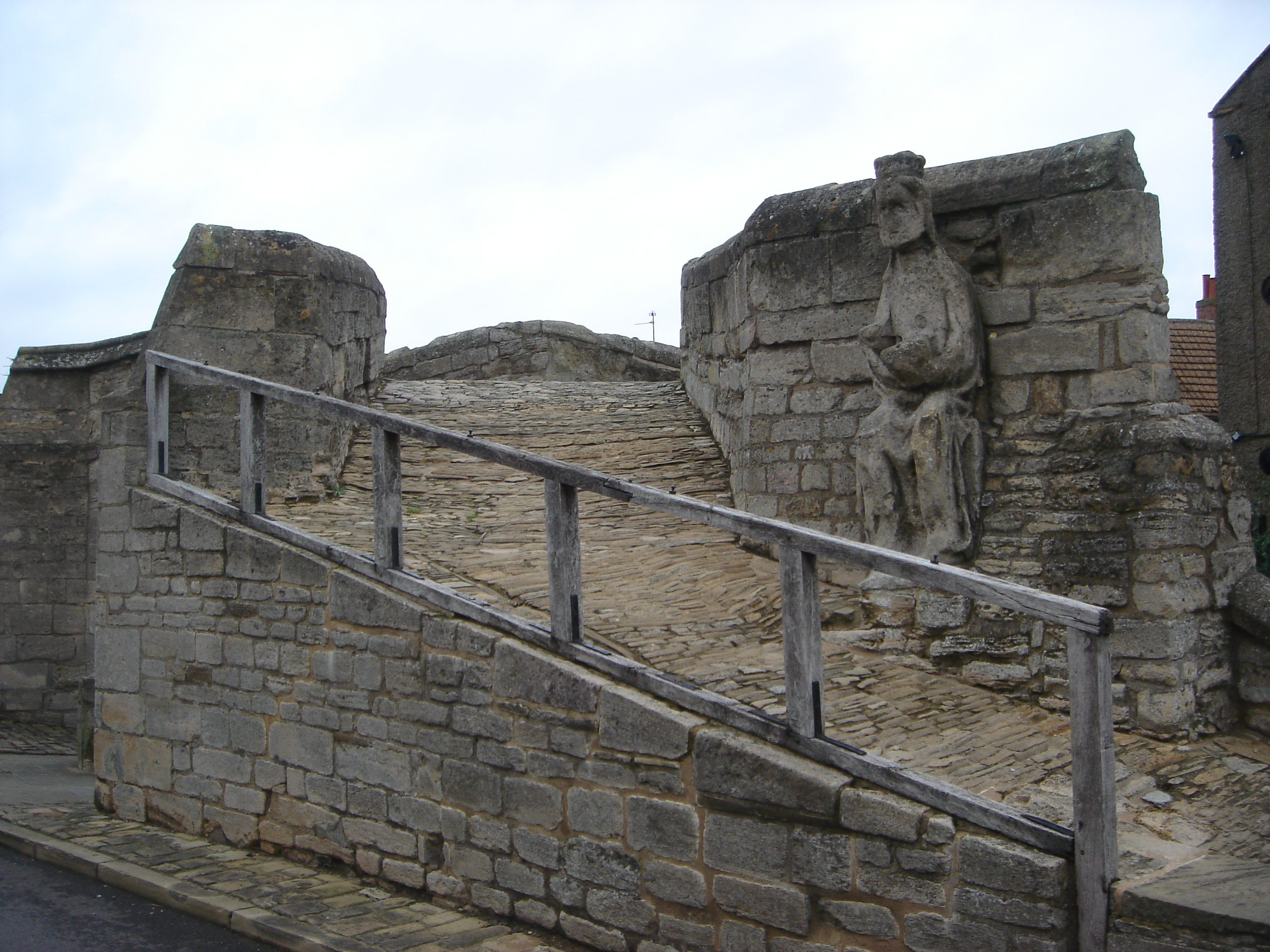 Trinity Bridge (Crowland), Lincolnshire, England - seated figure